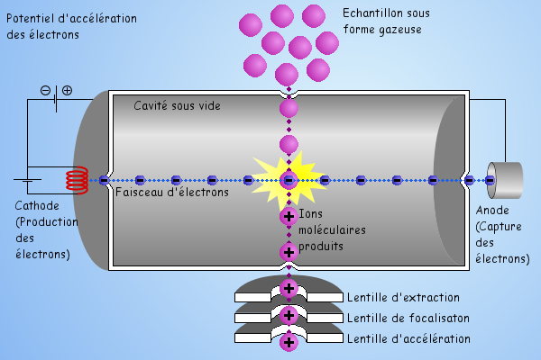 Mass spectrometry, electronic ionization source